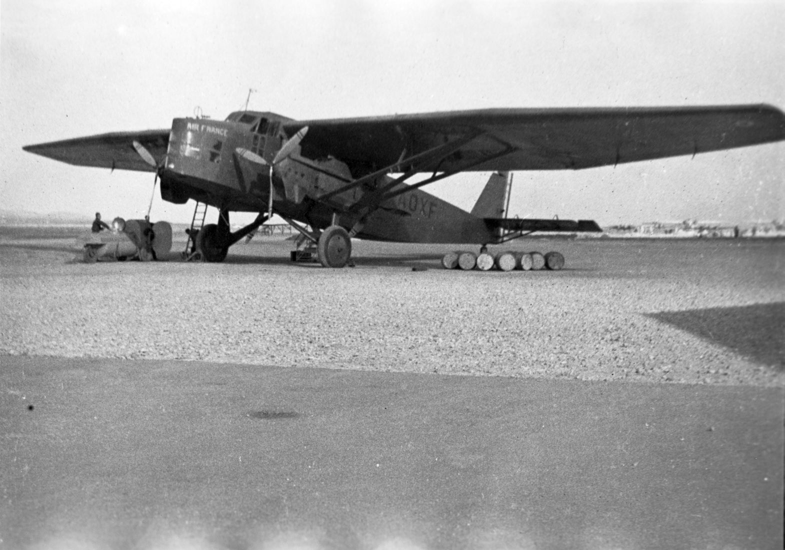 SDASM.CATALOG: 01_00092559 SDASM.TITLE: Farman 220, F-AOXF, De Gaulle, North Africa, 1943-44 SDASM.CORPORATION NAME: Farman SDASM.DESIGNATION: 220 SDASM.TAGS: Farman 220, F-AOXF, De Gaulle, North Africa, 1943-44 Farman 220, F-AOXF, De Gaulle, North Africa, 1943-44